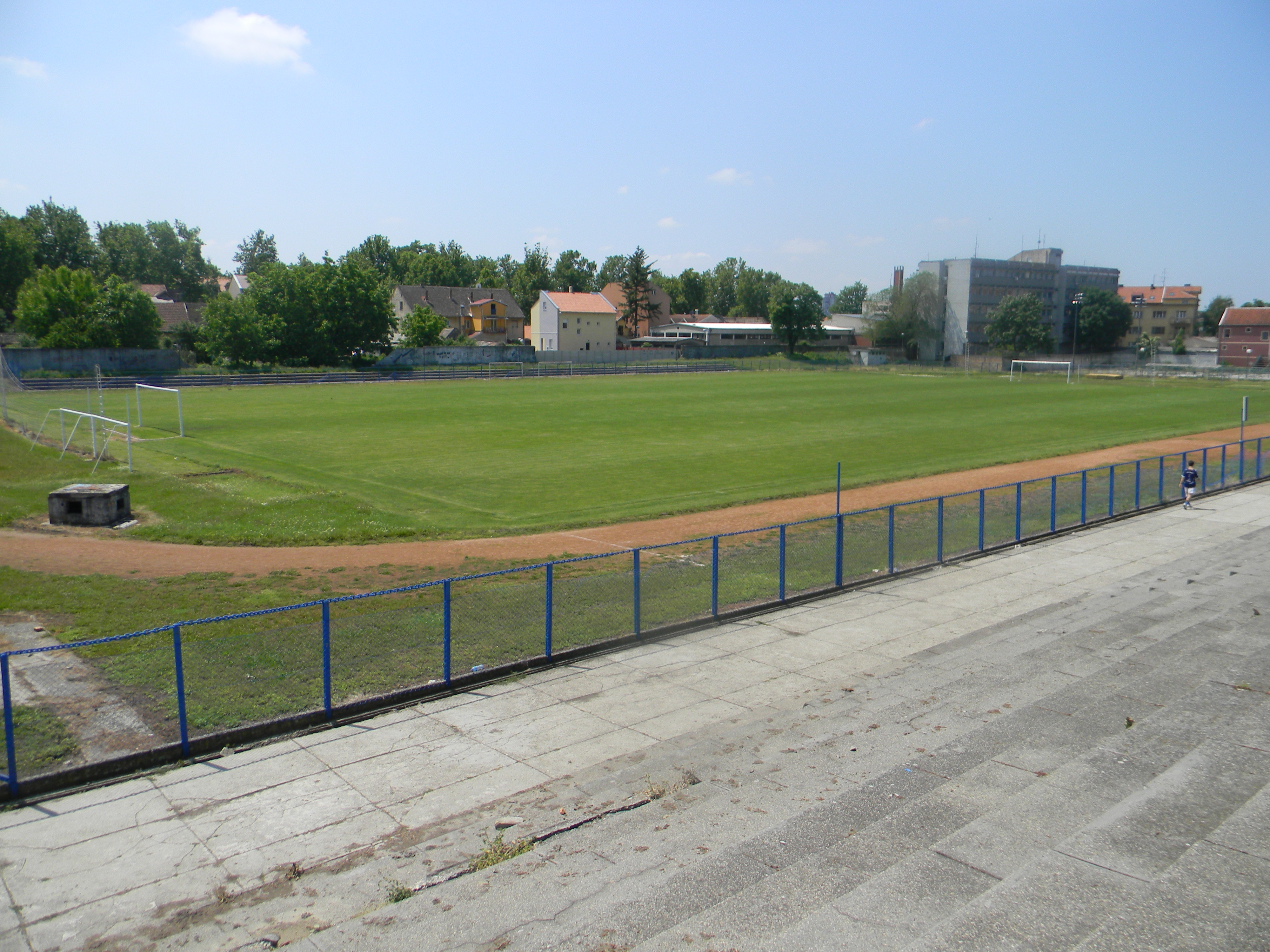 Gradski stadion Pančevo, playground of FK Dinamo Pančevo